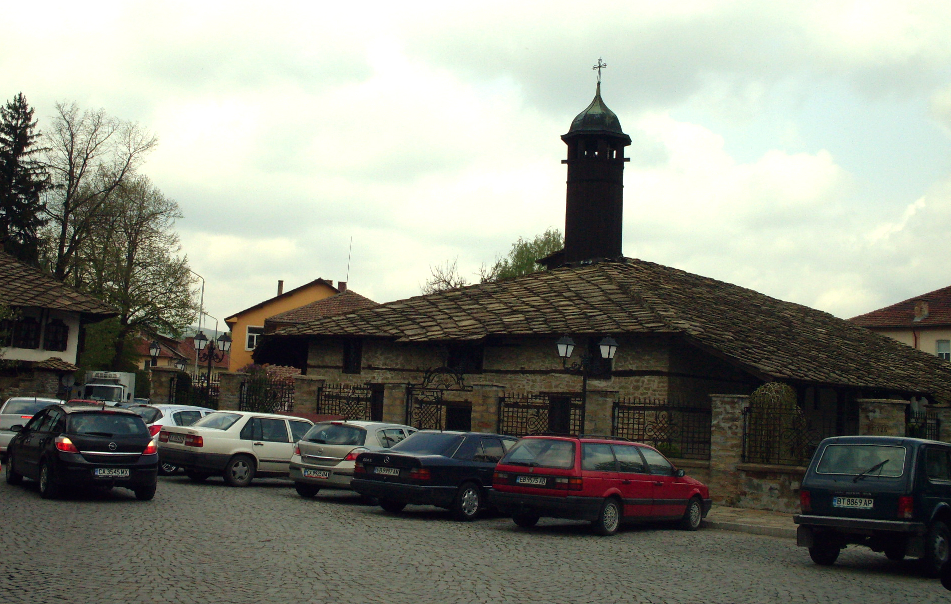 Triavna St. Michael the Archangel church XII c.